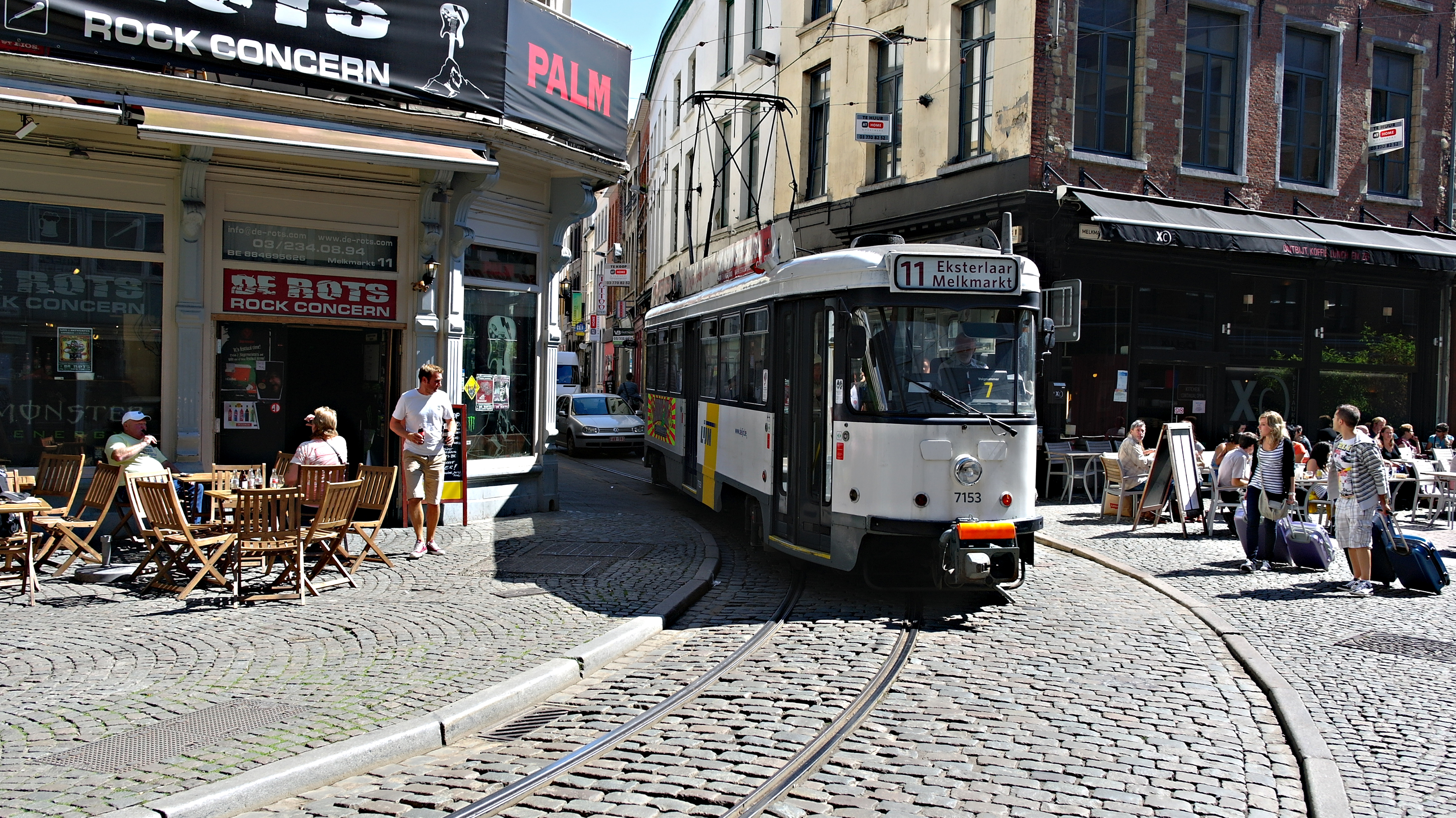 PCC-car in Antwerp, Belgium